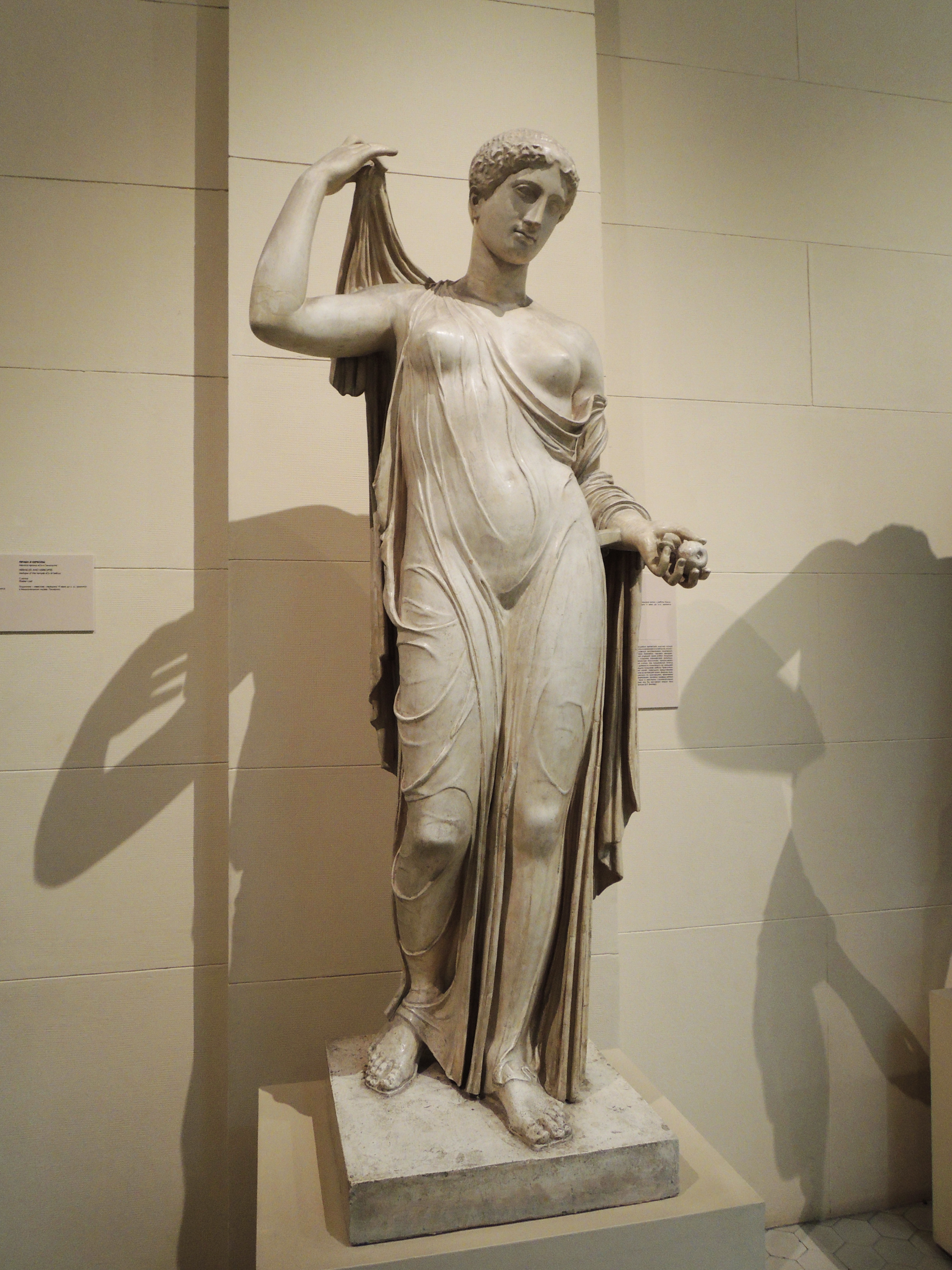 Venus with apple by Callimachus. Plaster cast in Pushkin museum